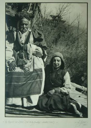 Li Gotami (right) in Tibet in 1948